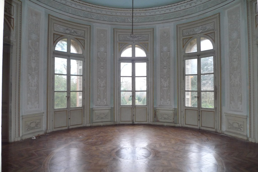 Living room in rotunda of the castle of Reynerie in Toulouse